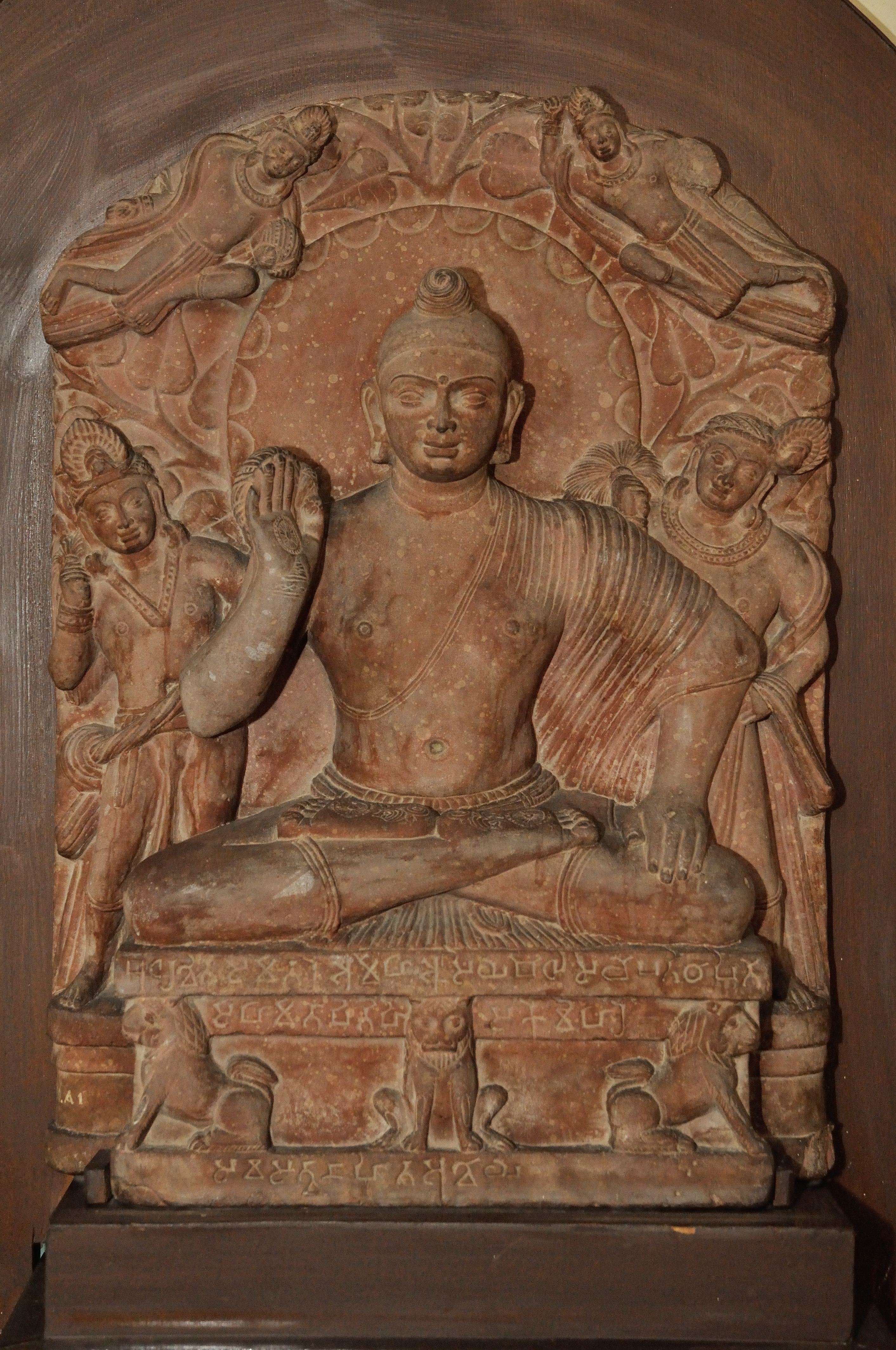 This artefact resides at the Government Museum, (hi: Rashtriya Sangrahalaya) formerly The Curzon Museum of Archaeology, Museum Road or Murari Lal Rajpal road, Dampier Nagar, Mathura, Uttar Pradesh, India. This museum is administrating by the State Government of Uttar Pradesh of India. Reference and translation of the inscription